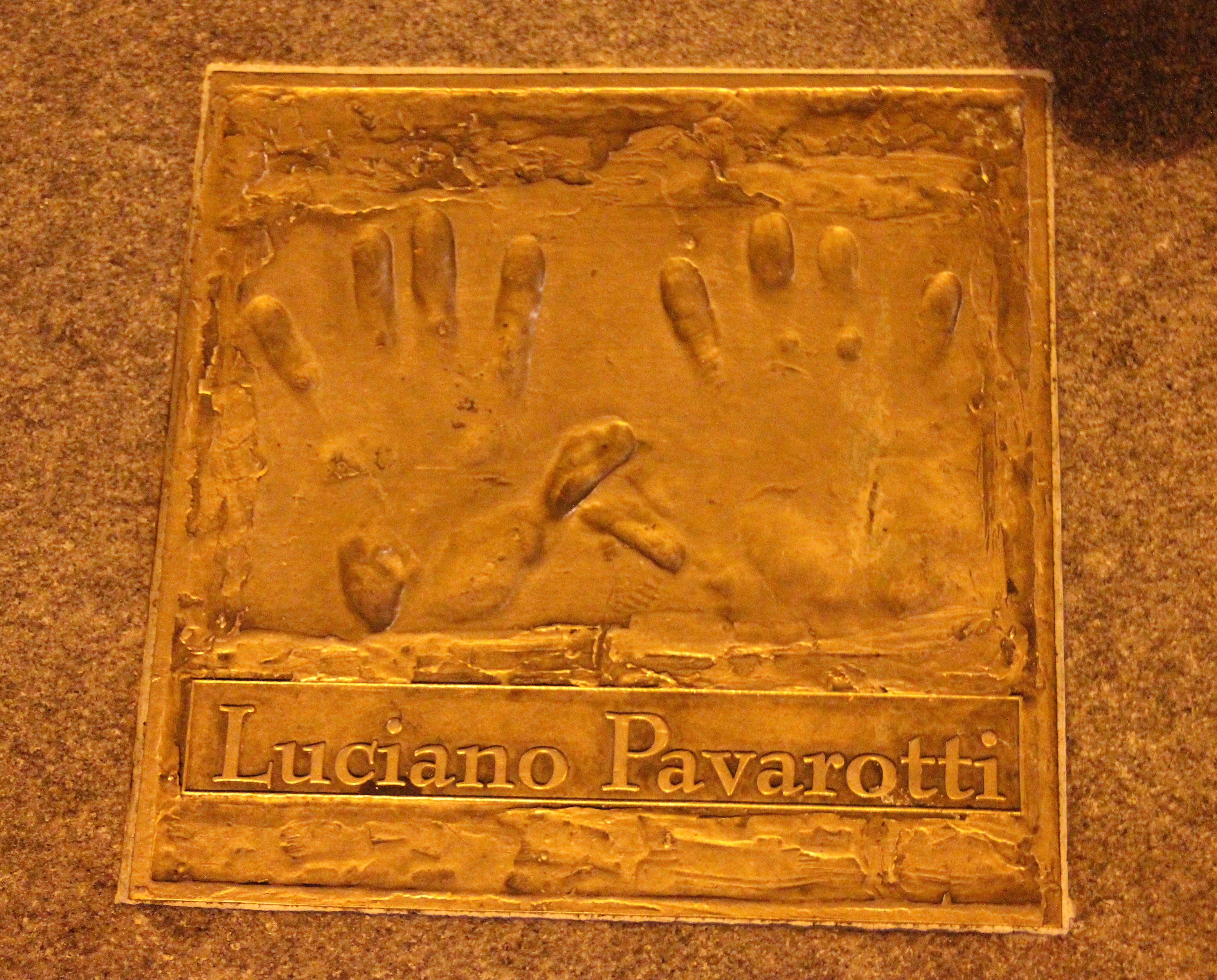 Handprint of opera singer Luciano Pavarotti in front of the Gaiety Theatre in Dublin, Ireland.